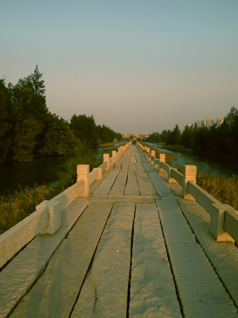 The ancient (Song Dynasty) Anping Bridge in Anhai Town, Quanzhou Prefecture, Fujian